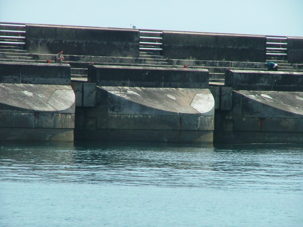 filled with concrete form the breakwater of Brighton's Marina.